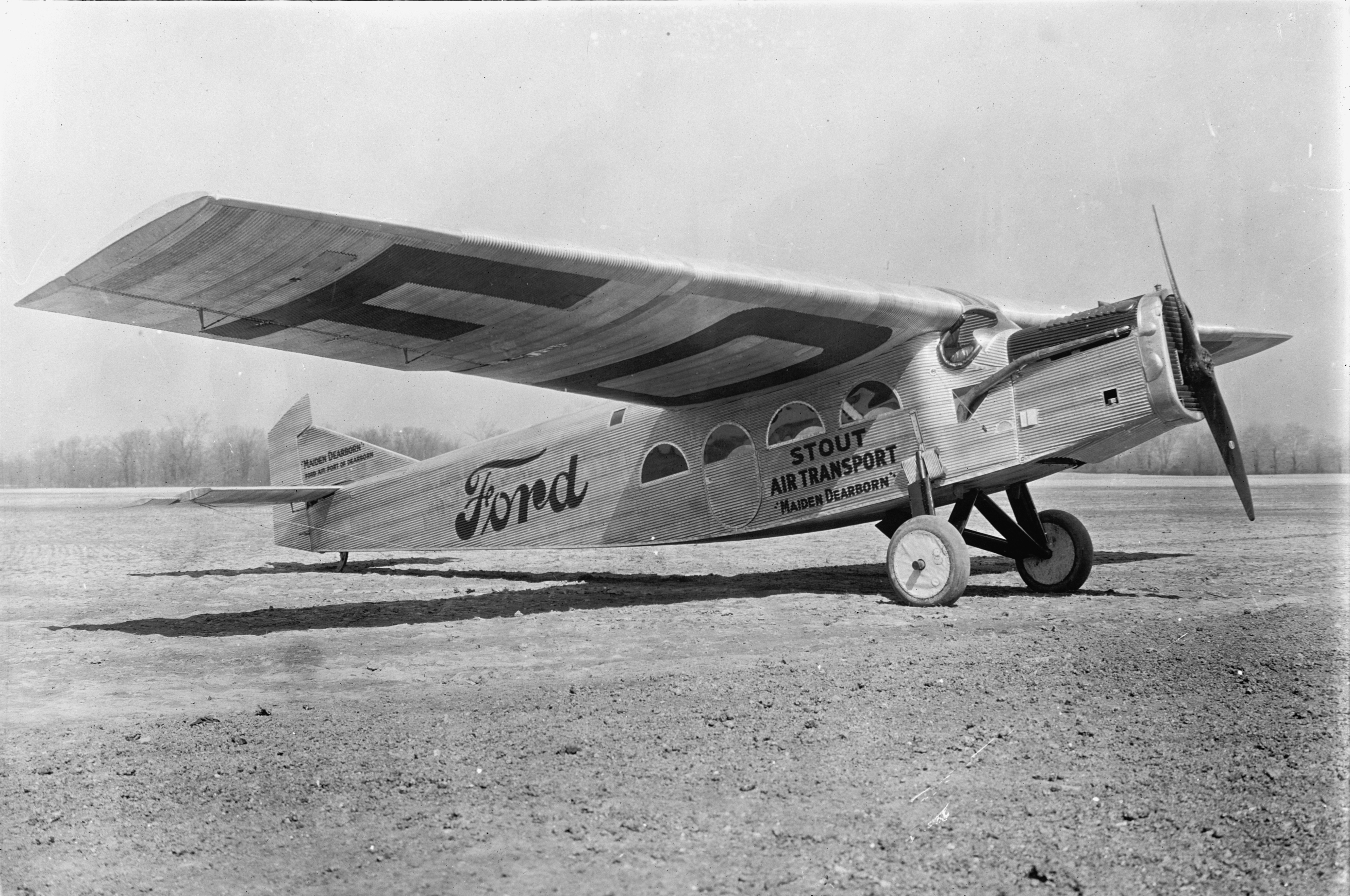 Stout 2AT-2 "Maiden Dearborn"